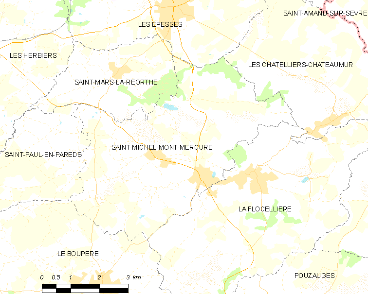 Map of French municipality Saint-Michel-Mont-Mercure